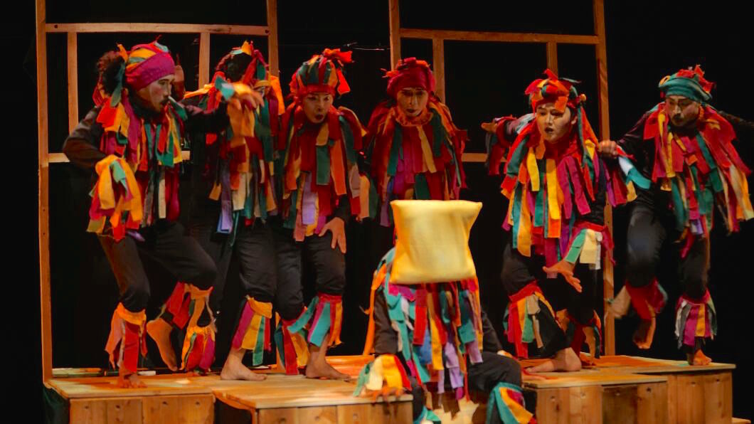 Pertunjukan "Mati Berdiri", Pertunjukan ini di pentaskan pada di Hela Teater Festival 2017, Teater Tubuh, di Salihara